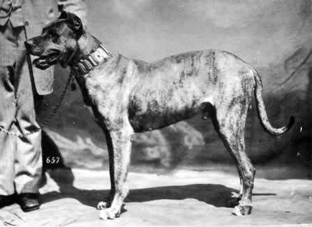 Male Great Dane 'Nero' in 1879.